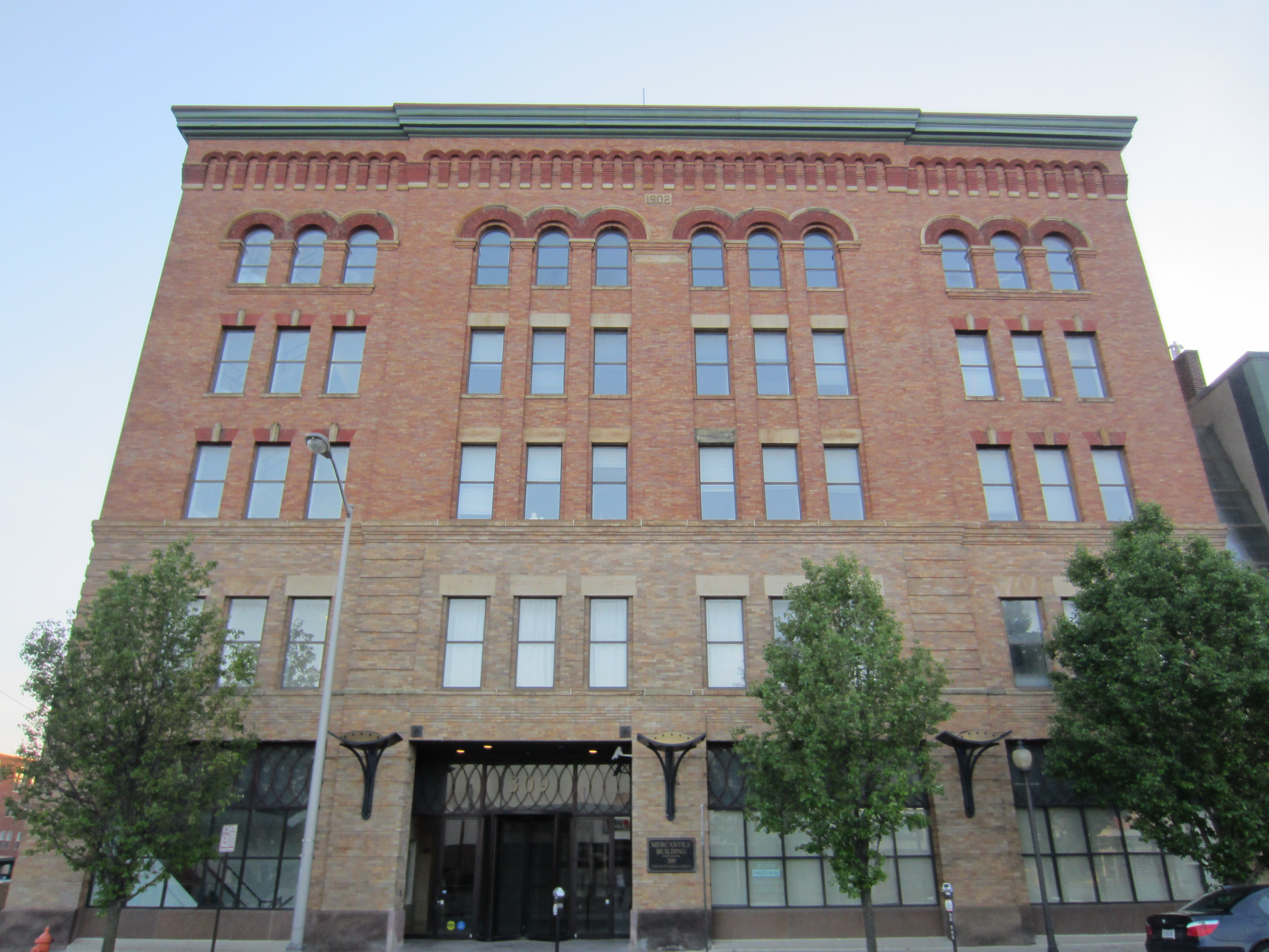 Front of the United States Carriage Company Building, located at 309-319 S. Fourth Street (U.S. Route 33) in downtown Columbus, Ohio, United States. Built in 1902, it is listed on the National Register of Historic Places.